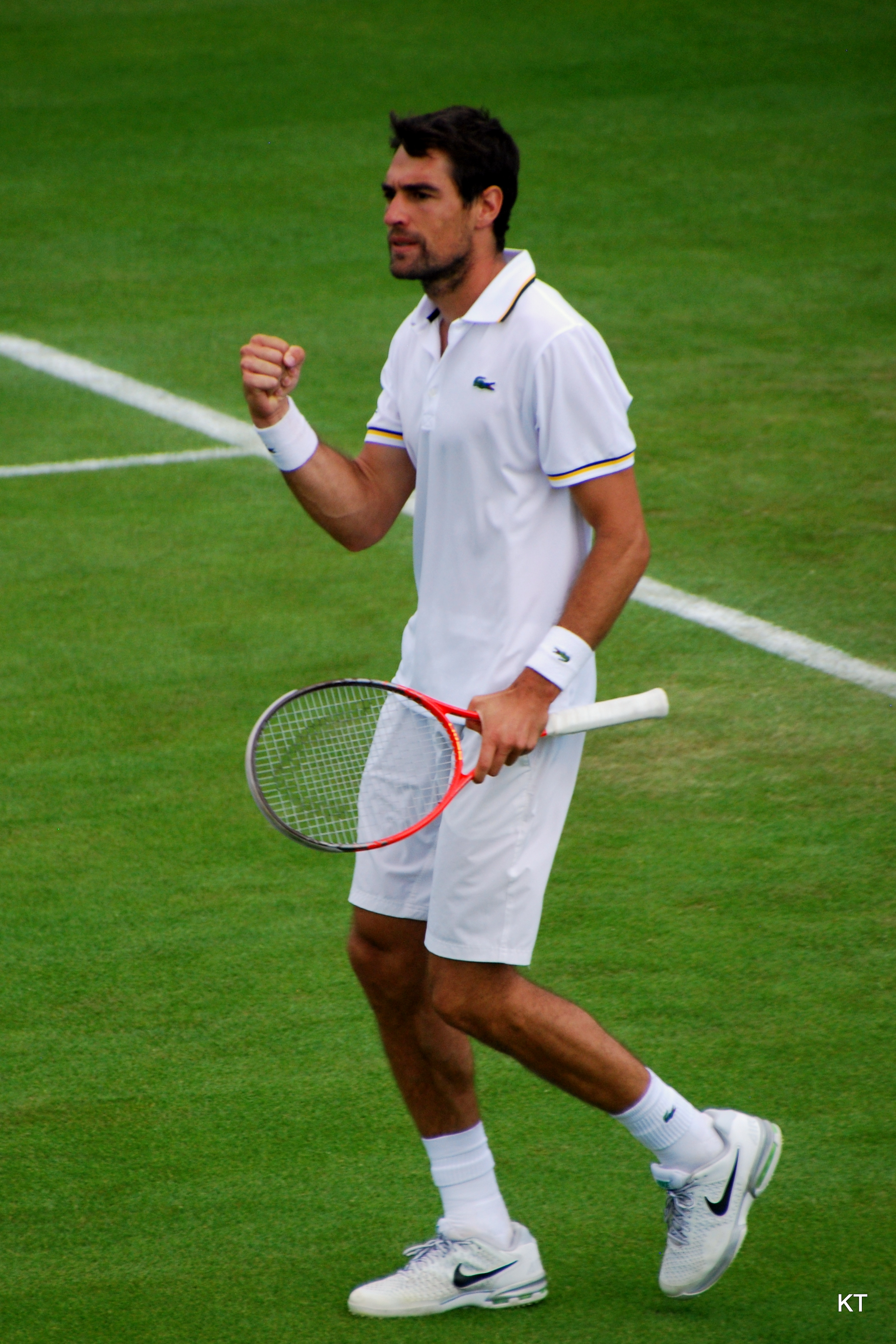 Jeremy Chardy